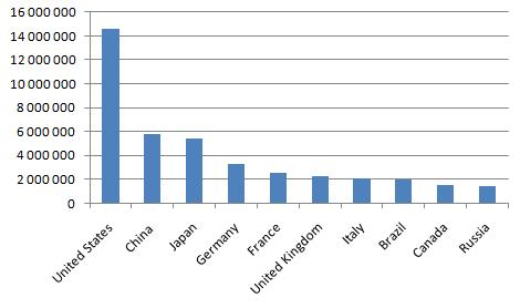 The ten largest economies in the world, measured in nominal GDP (millions of USD), according the International Monetary Fund, 2010